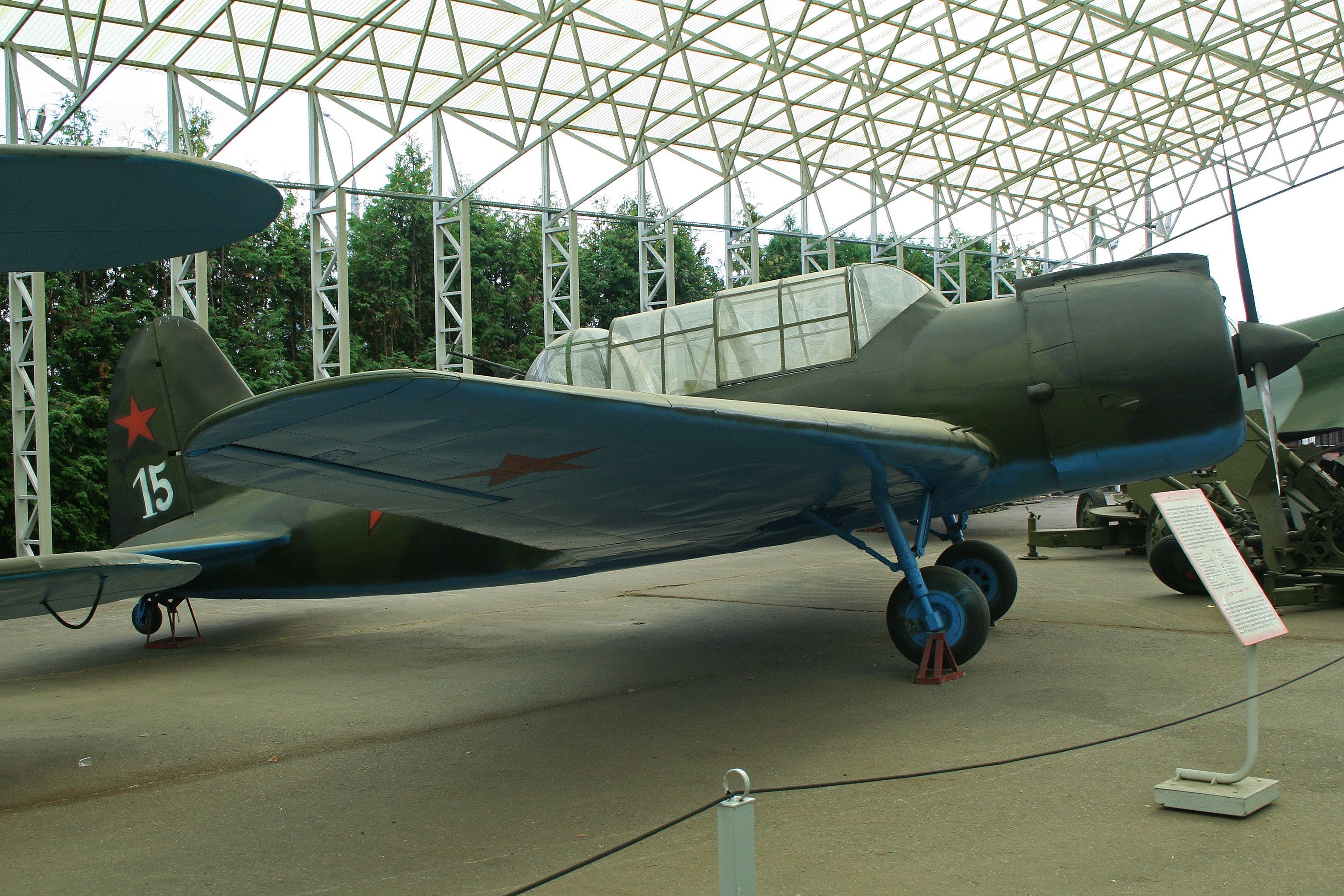 A pure mock-up, representing a type which I believe is now extinct. On display at the Museum of the Great Patriotic War in Victory Park, Moscow. 11-8-2012